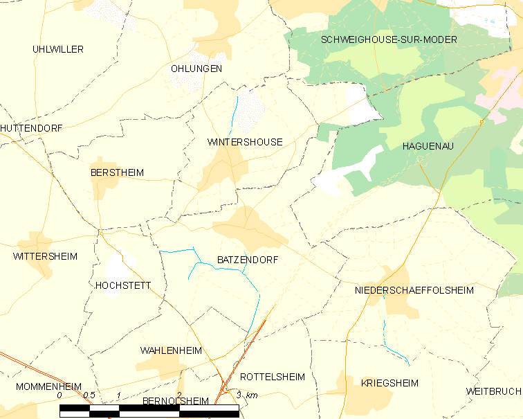 Map of French municipality